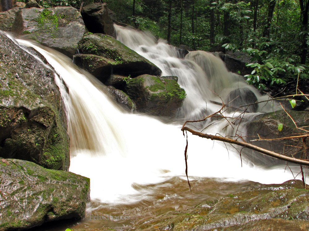 This water fall was absolutely worth the 16 km treck we had in Nilambur. A hand held shot.